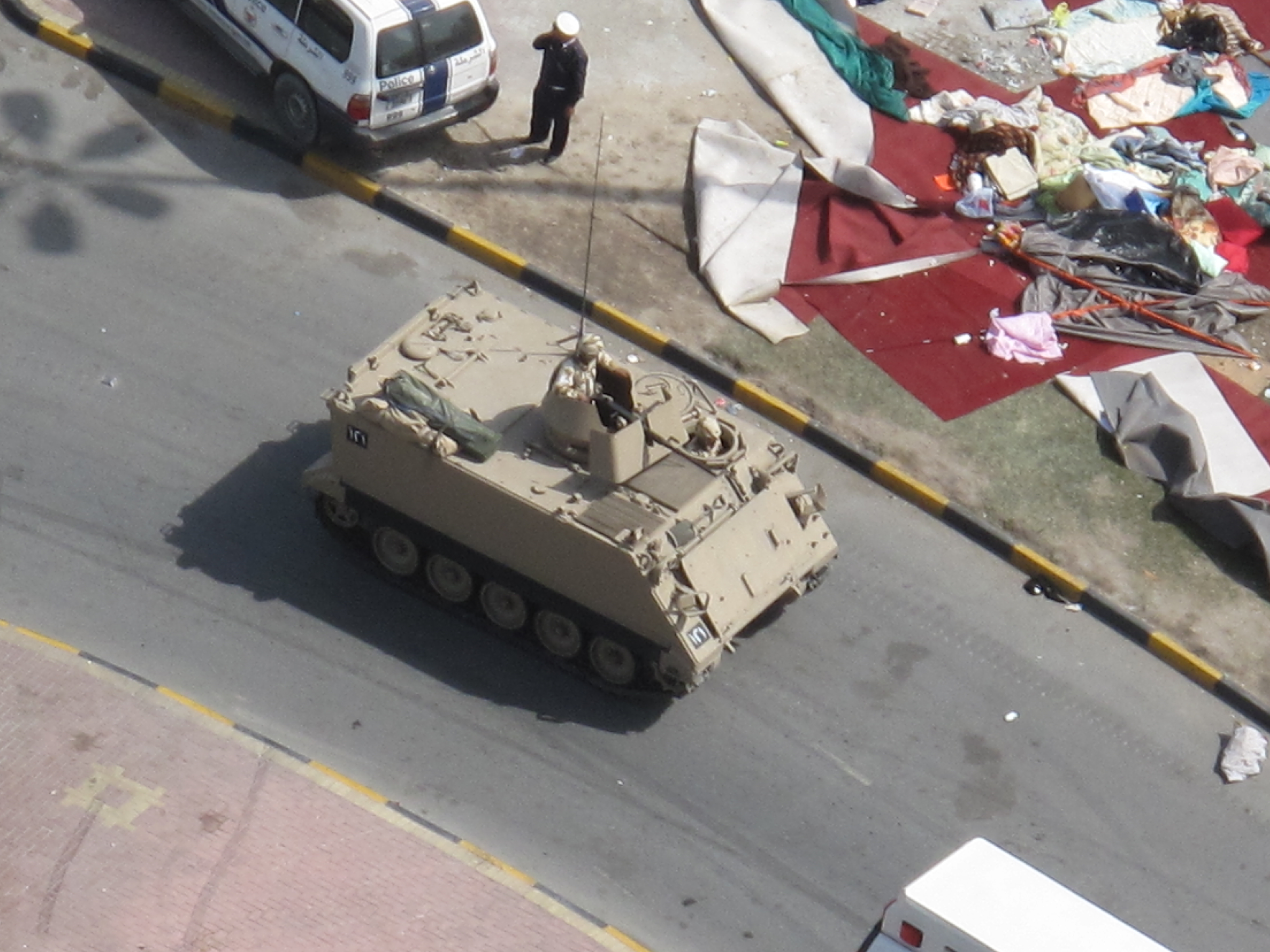 Army tank moving in Pearl Roundabout